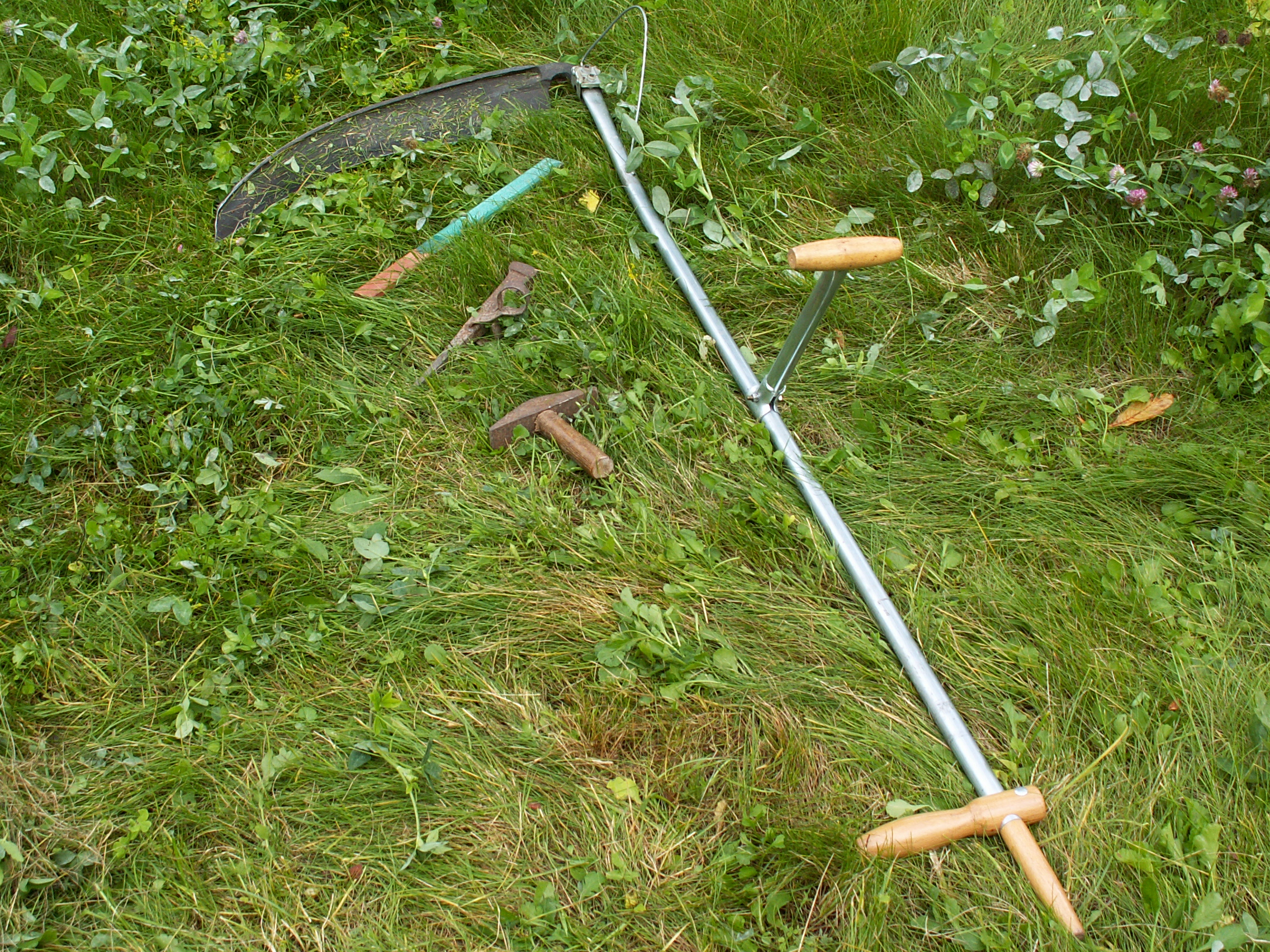 Scythe